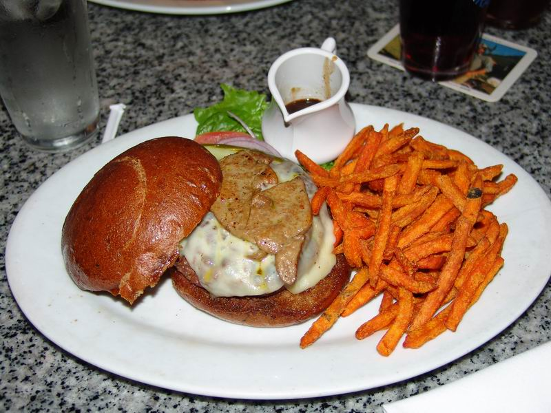 Wyoming Buffalo Patty, Whole Wheat Bun, Mozzarella, Pan Seared Foie Gras, Black Perigord Truffle Sauce with a side of Sweet Potato Fries @ Buger Bar - Mandalay Bay Hotel - Las Vegas (2006-10-15)